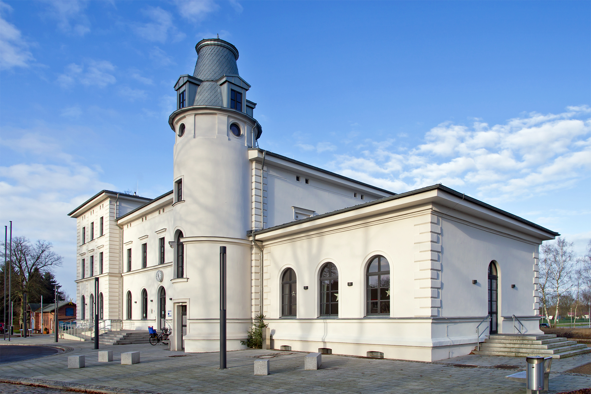 South-east view of the railway station "Dannenberg Ost" in Dannenberg (Elbe), built in 1874 (here after renovation in 2012). The building shape is reminiscent of a steam locomotive.